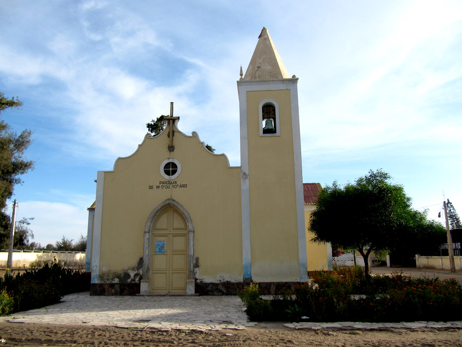 Church in Tombua, Namibe, Angola